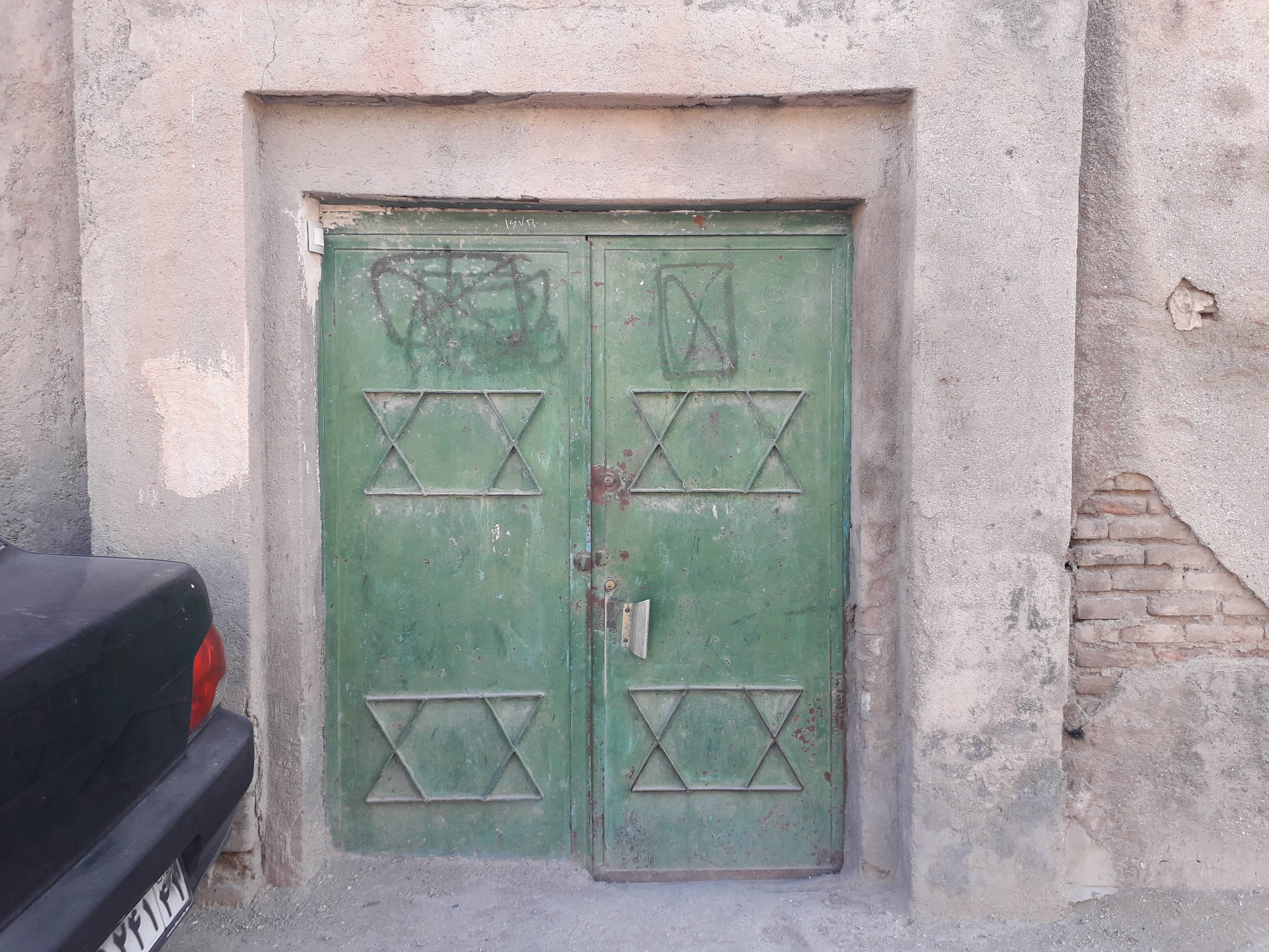 Jewish synagogue in Borujerd city. Iran